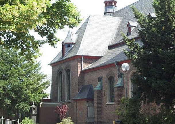 Church of Blatzheim (Germany)